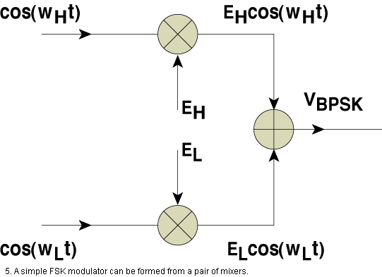 rgwdfhdfh